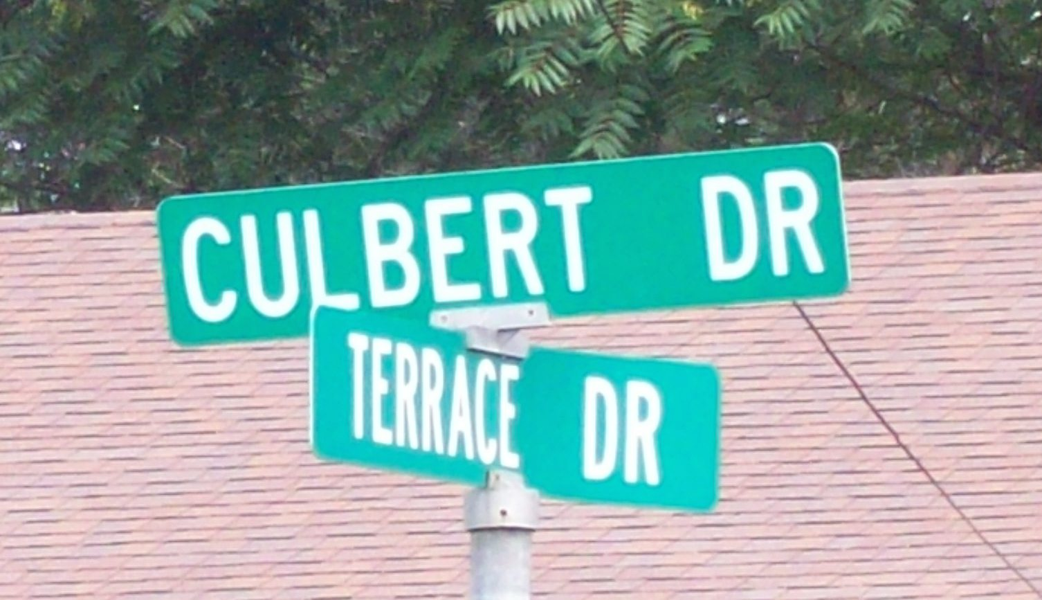 image of Culbert Drive road sign